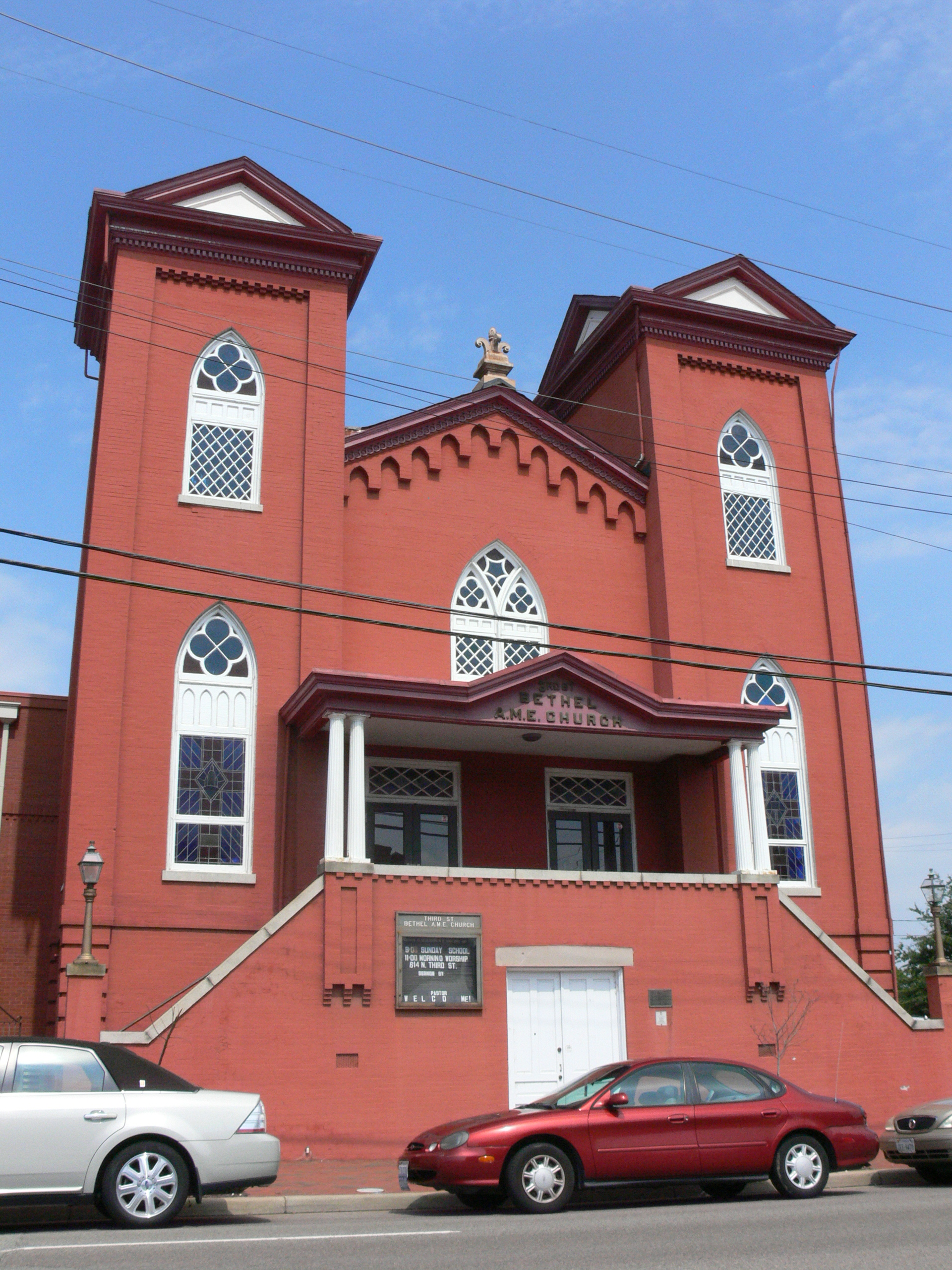 Third Street Bethel A.M.E. Church in the Jackson Ward neighborhood of Richmond, Virginia, on the National Register of Historic Places.